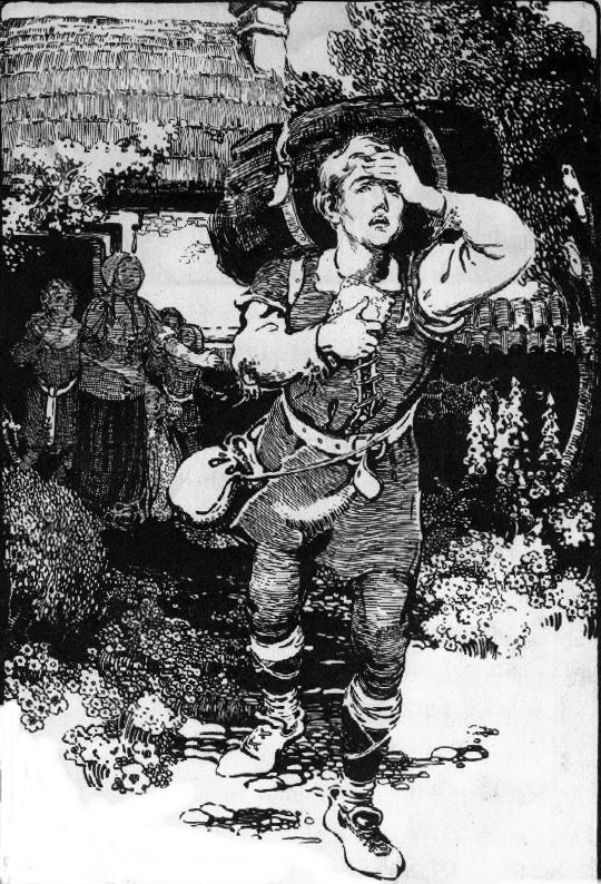 "The man with the burden", illustration from John Bunyan's dream story (based on Bunyan's Pilgrim's Progress) (p. 18) abridged by James Baldwin (1841-1925)